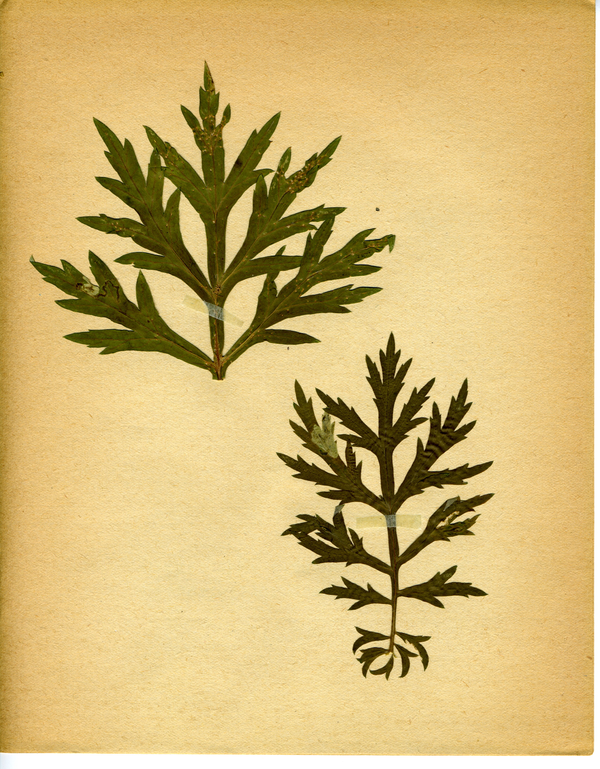 Leaf-mark Coll. Dr. Martin Hering. Host plant: Artemisia vulgaris (Compositae) - Parasite: Dizigomyza artemisiae (Agromyzidae) – Location: Crossen, Oder, IX.1932, leg. Hering, det. Hering, being processed by Gisela Schadewaldt.